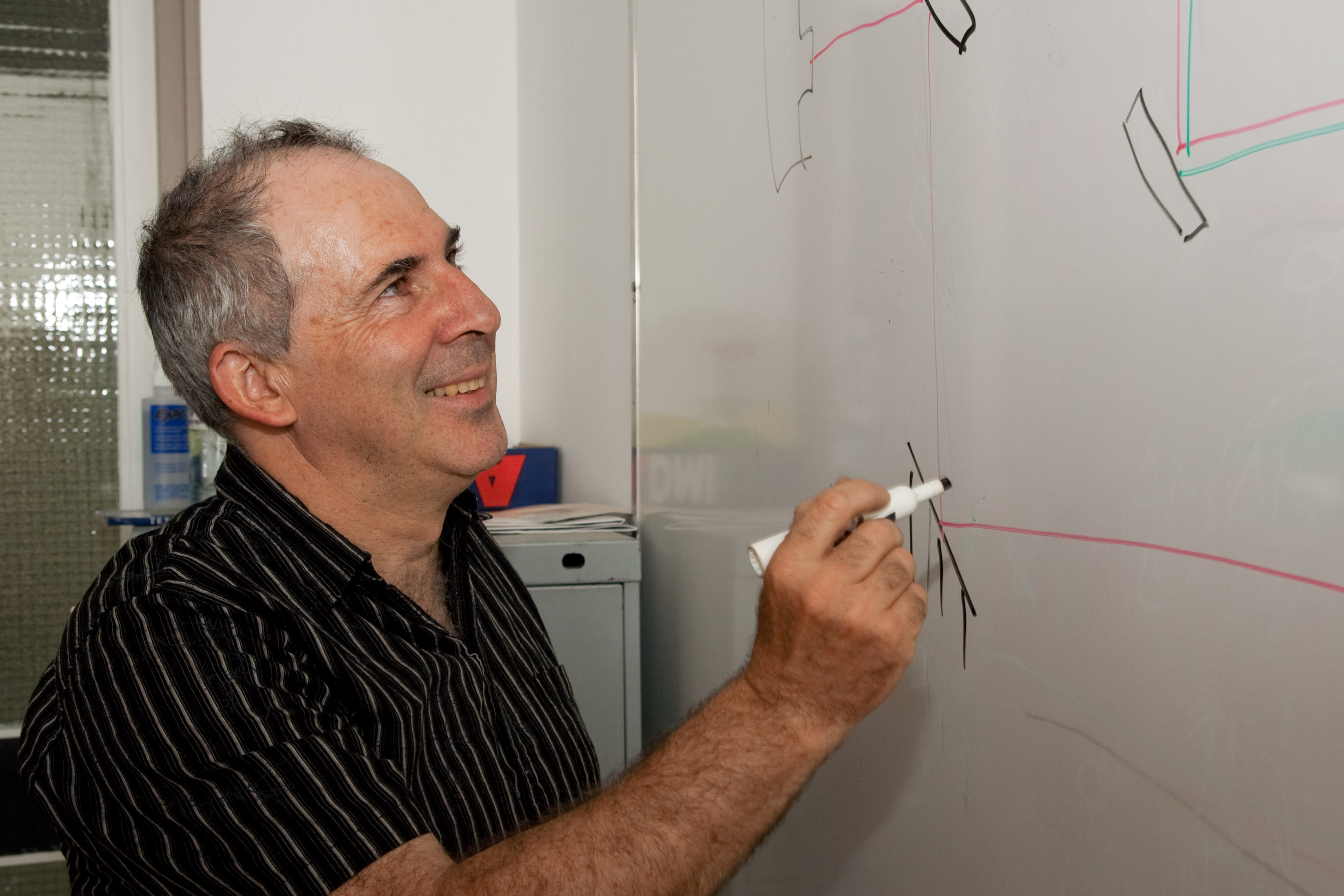 Prof. Lev Vaidman at his office at Tel Aviv University